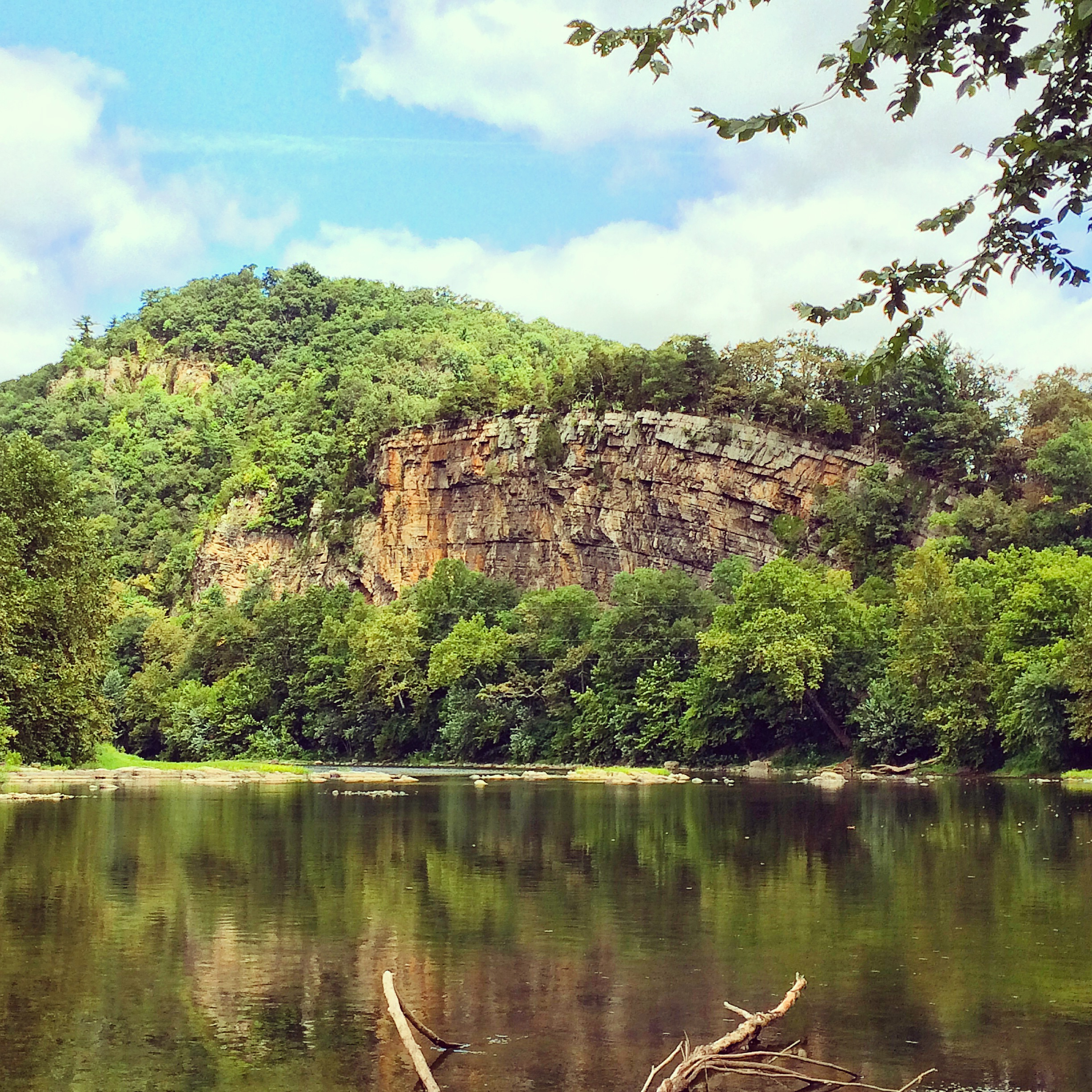 Hanging Rocks rising nearly 300 feet (91 m) above the South Branch Potomac River in Wappocomo, Hampshire County in the U.S. state of West Virginia. Photograph of Hanging Rocks from the southeast, along the South Branch Potomac River, by Quercus montana